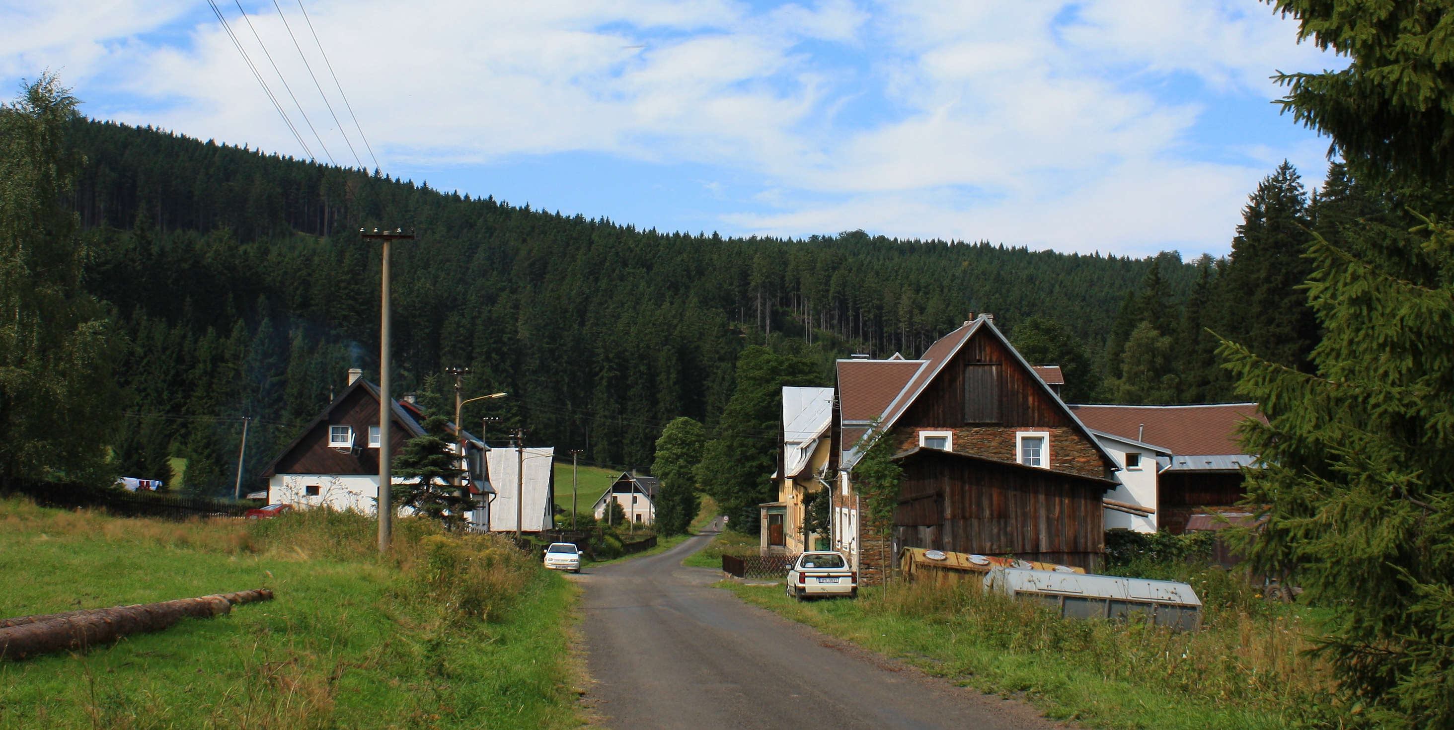 Heart of Zlatý Kopec (Goldenhöhe)